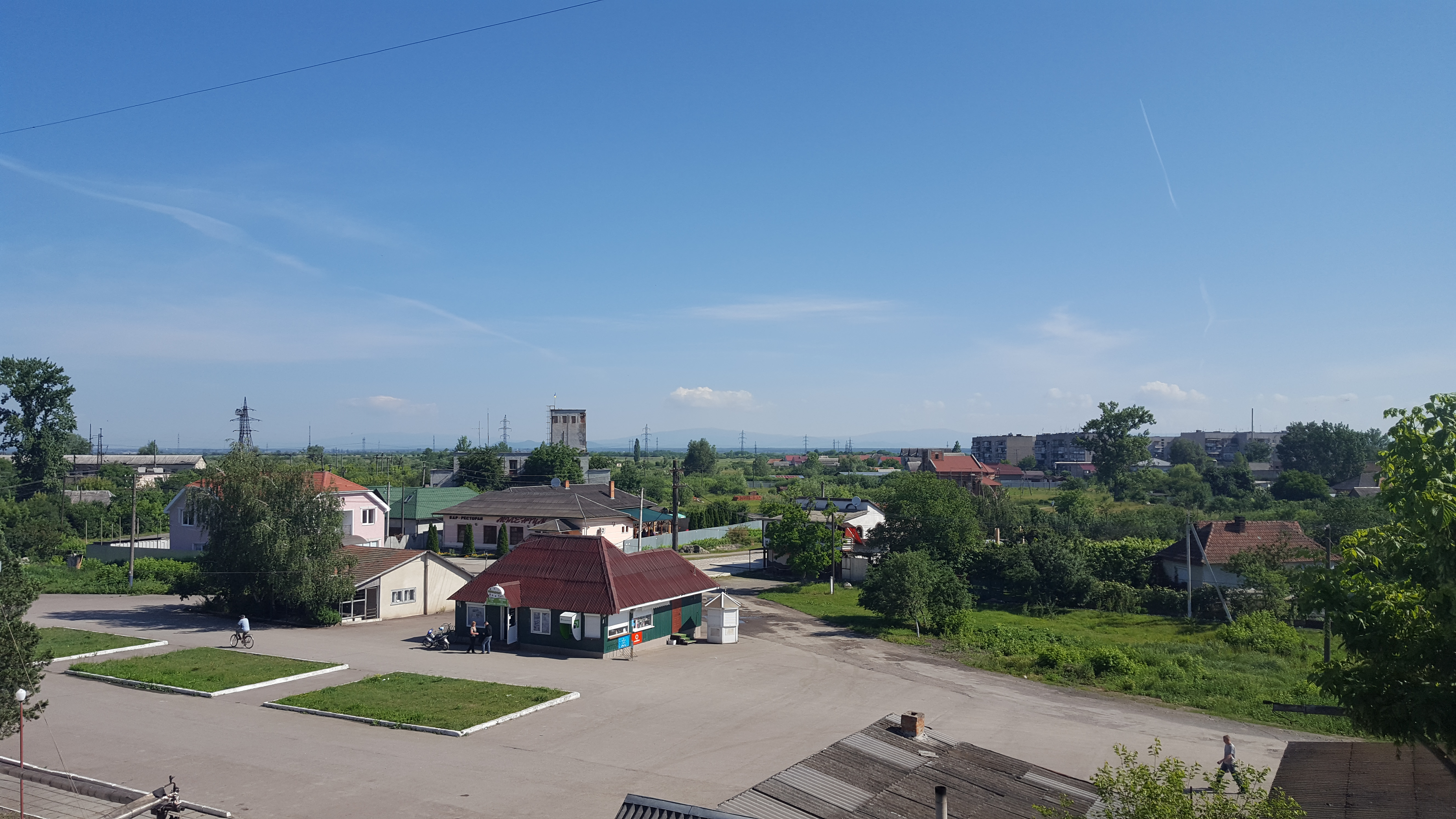 A small "city square" by a train station in Batiovo (Батьово), Ukraine